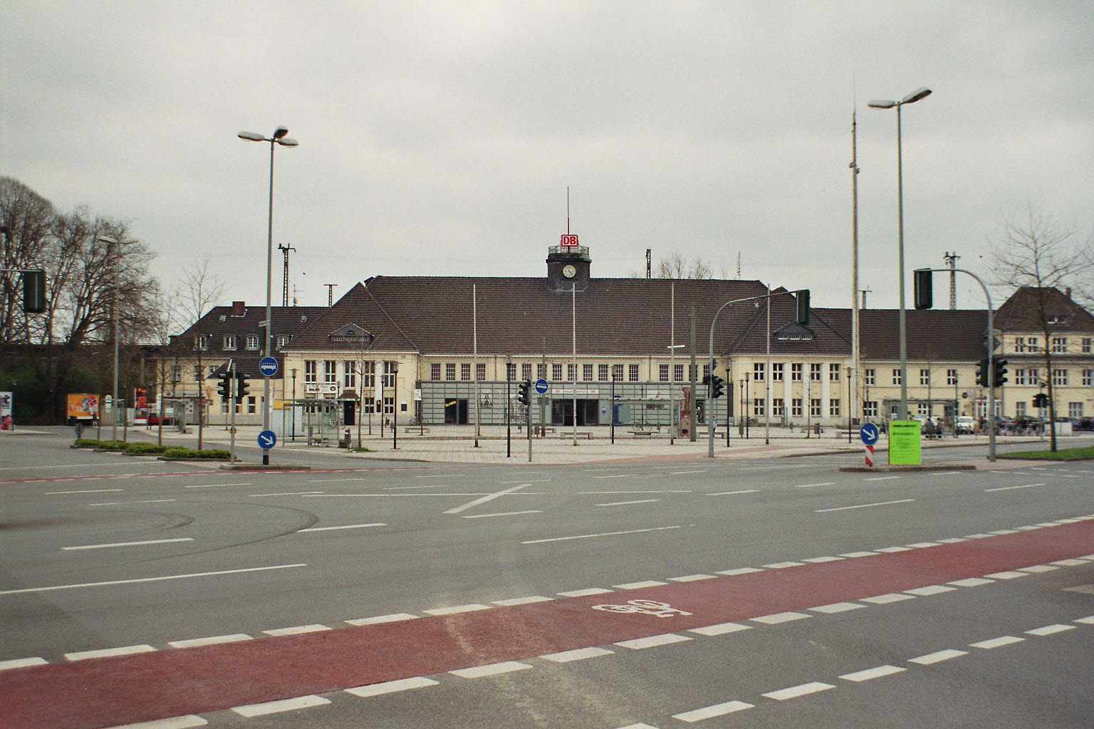 The entrance-hall of the main train station of Wanne-Eickel, Germany.